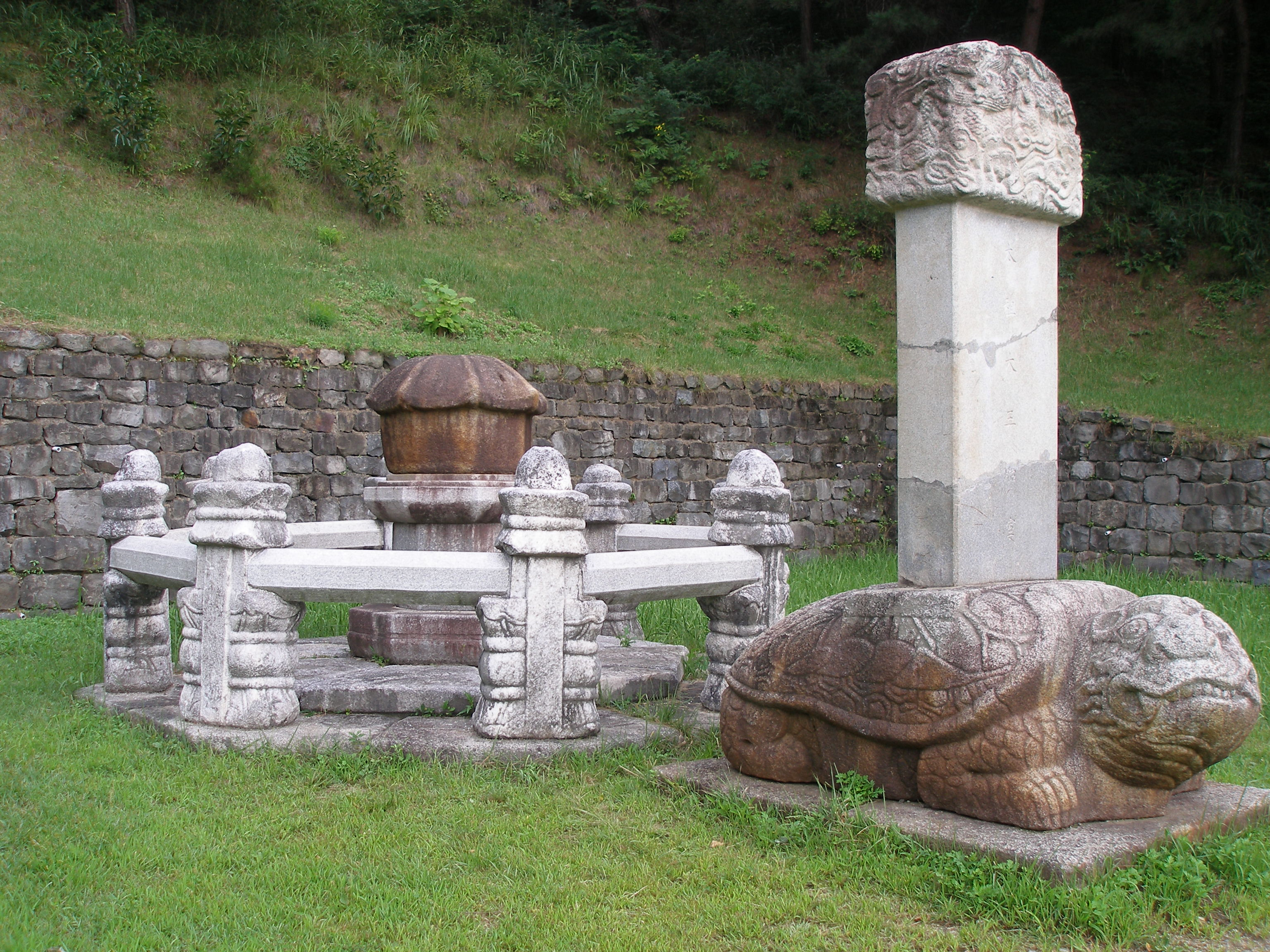 Umbilical cord tomb of Taejo of Joseon Dynasty